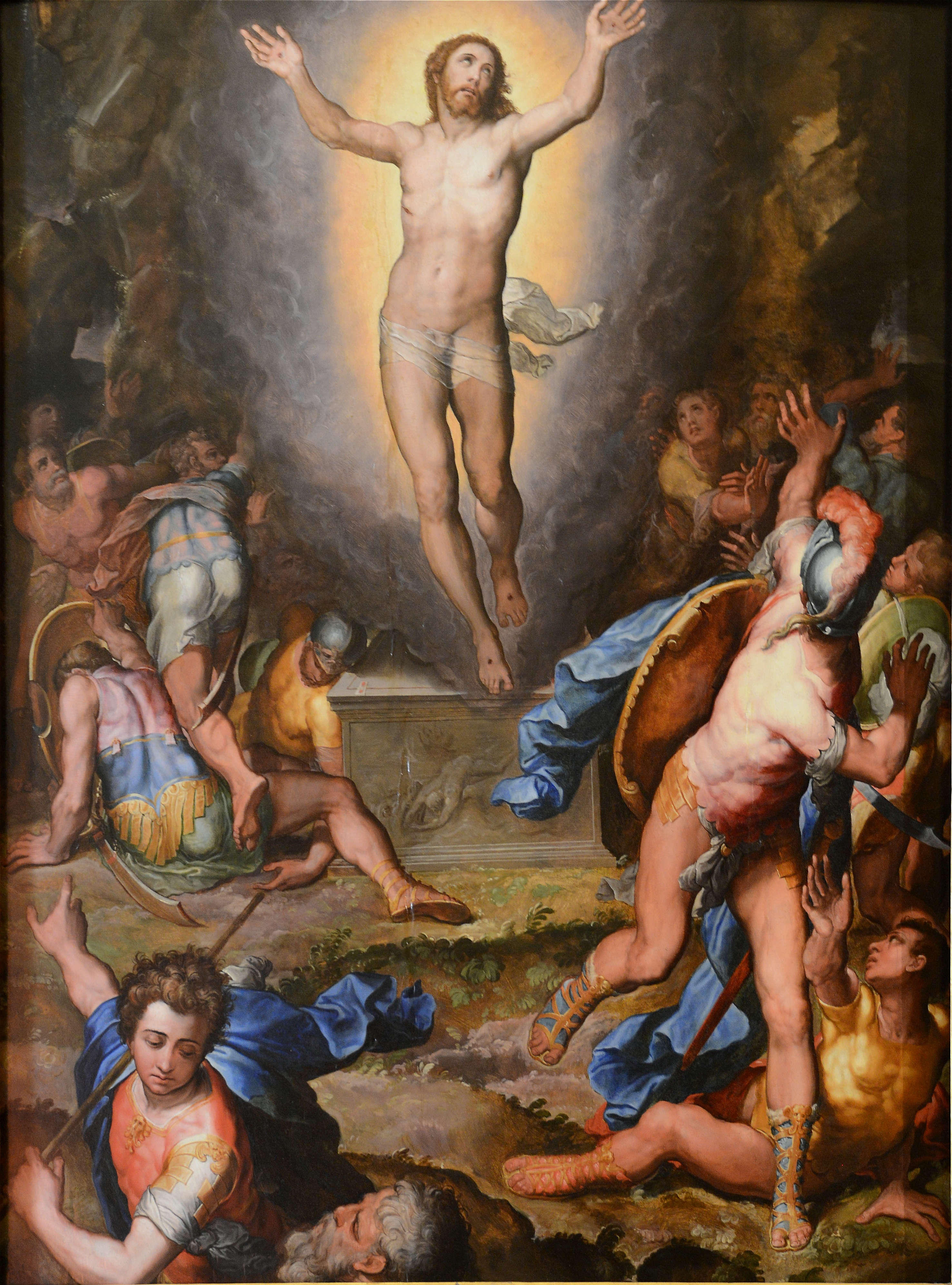 The Ressurrection of Christ byMarco Pino. Galleria Borghese, Roma